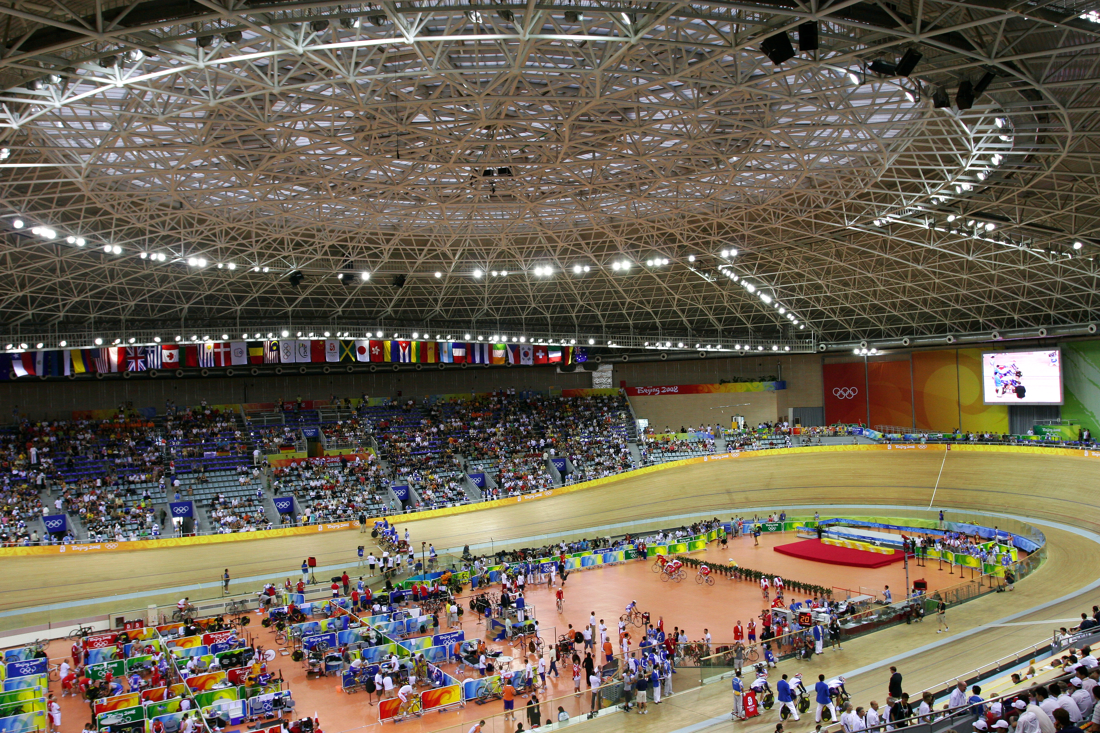 We attended the men's cycling competition. The venue was probably the most exciting part.